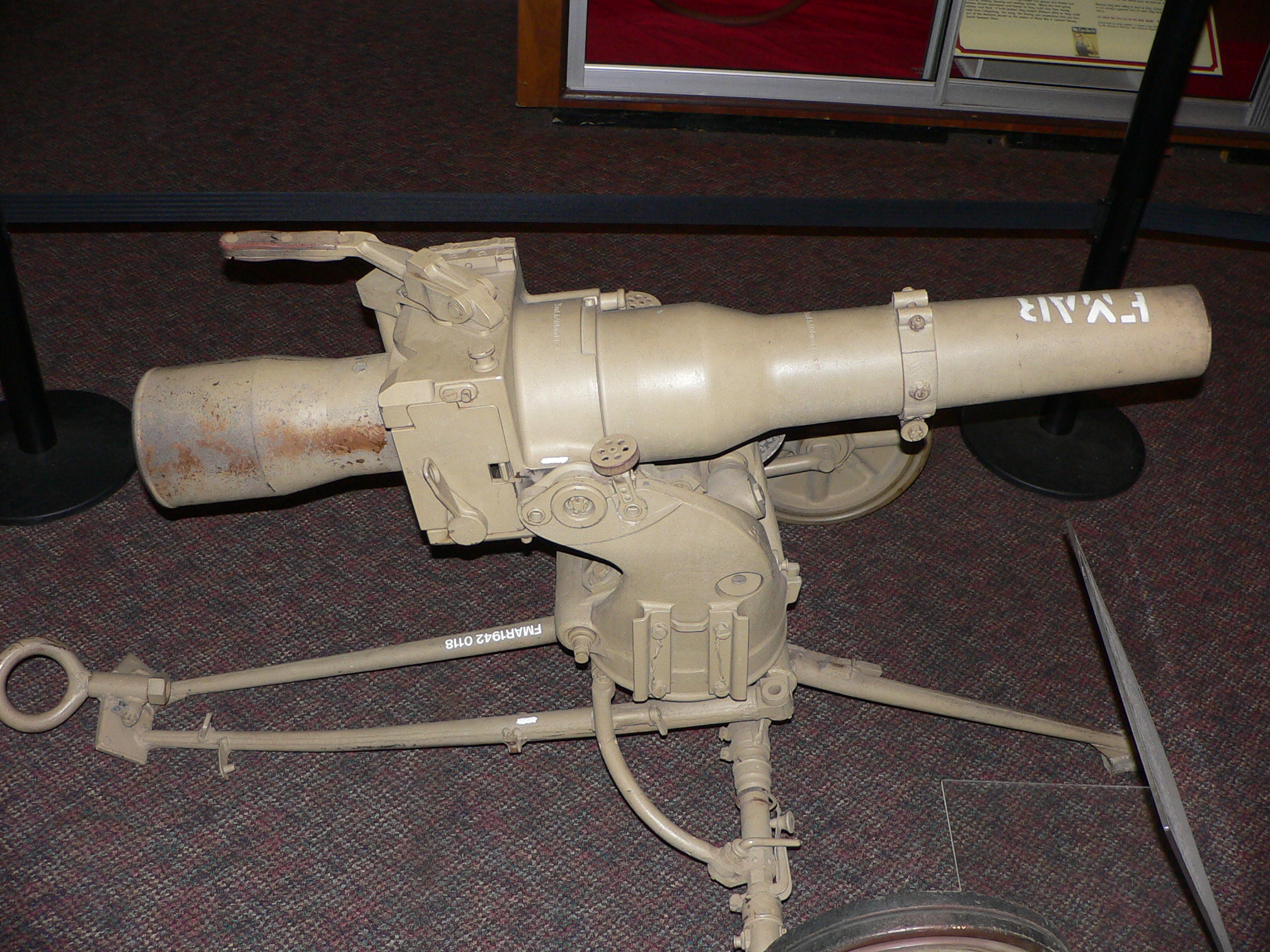 Picture taken by myself, Mark Pellegrini, at the United States Army Ordnance Museum (Aberdeen Proving Ground, MD) on August 14, 2007.